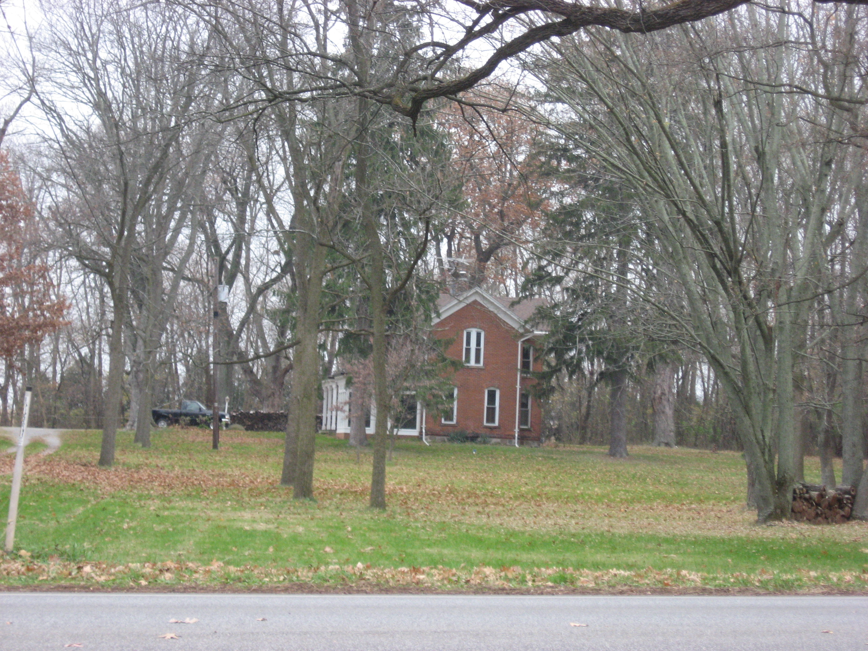 Front of the farmhouse at the Wertz-Bestle Farm, located at 51387 Portage Road north of South Bend in German Township, St. Joseph County, Indiana, United States. Built in 1872, it is listed on the National Register of Historic Places.